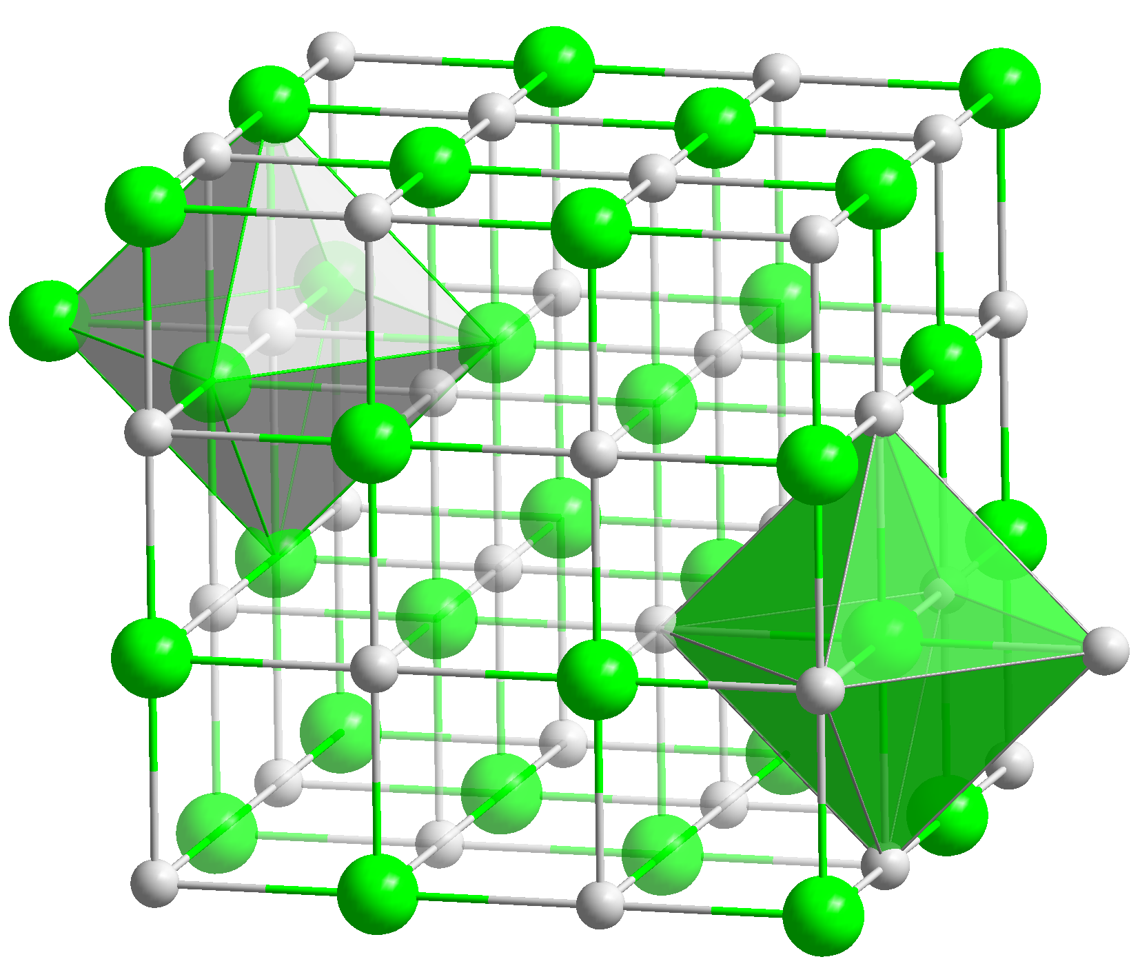 Crystal structure of NaCl with coordination polyhedra